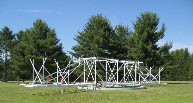 Full-size replica of the first radio telescope, built by Karl Jansky and now at the National Radio Astronomy Observatory (NRAO) in Green Bank, West Virginia